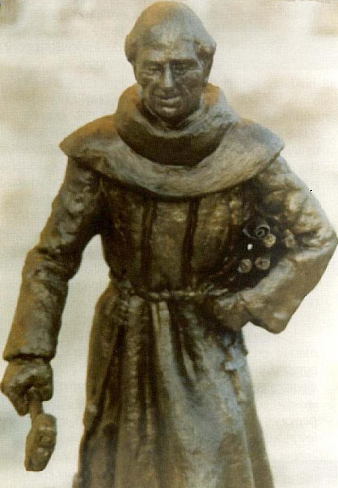 Monumento de Fray Antonio de Olivares en Texas.